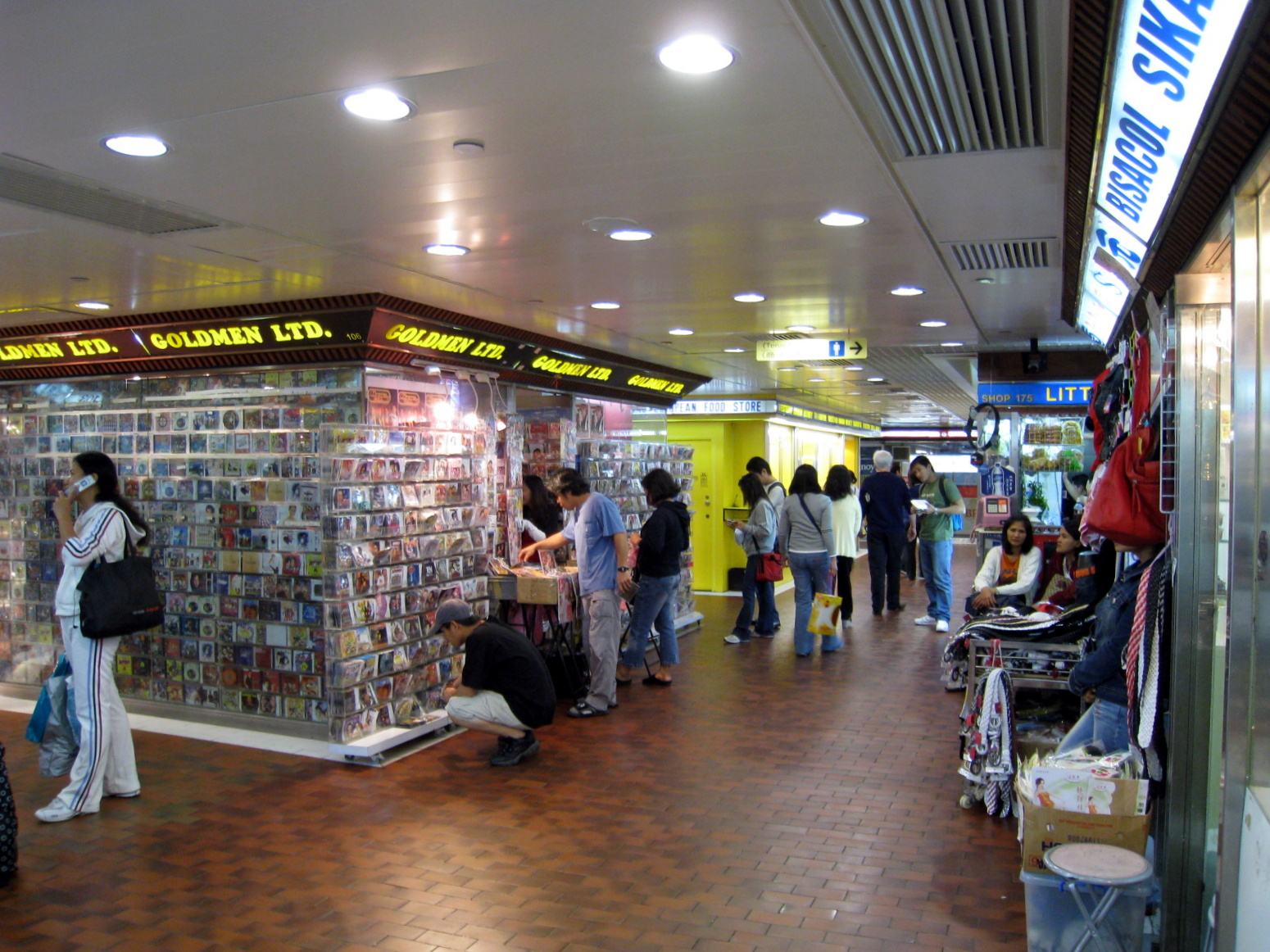 HK World Wide House Shopping Arcade 環球大廈